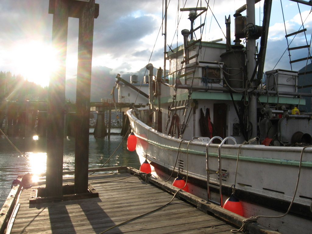 The docks at Bella Coola, British Columbiabella coola docks